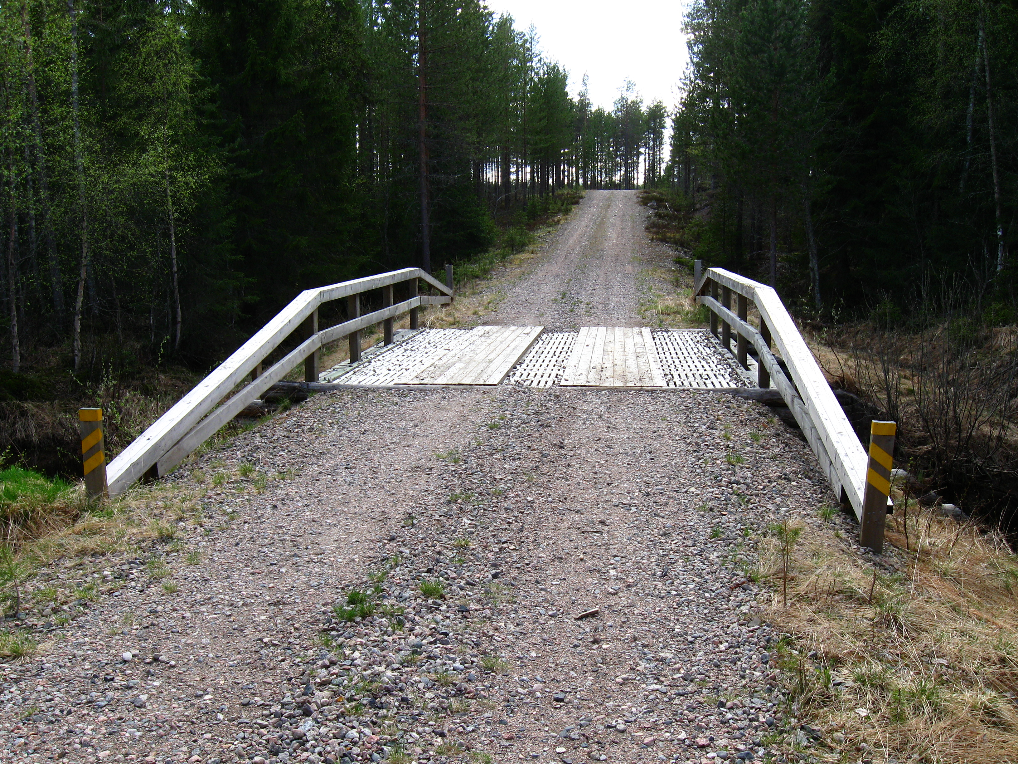 A bridge accross Piltuanjoki close to the lake Kärkkäänjärvi in Juorkuna, Utajärvi, Finland.